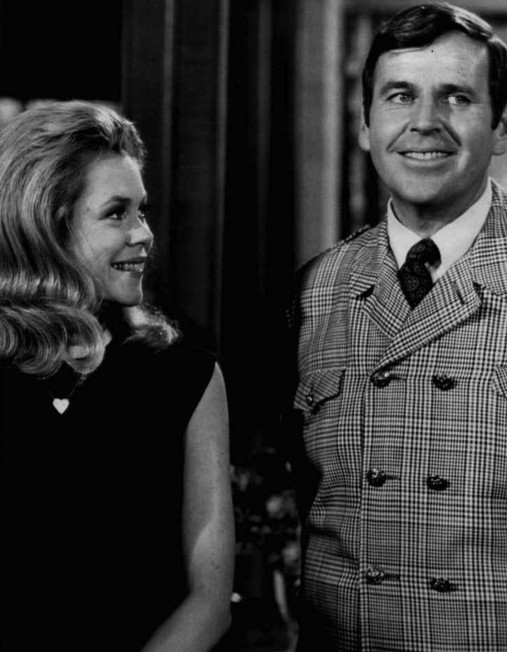 Publicity photo of Elizabeth Montgomery and Paul Lynde from Bewitched, 1968.